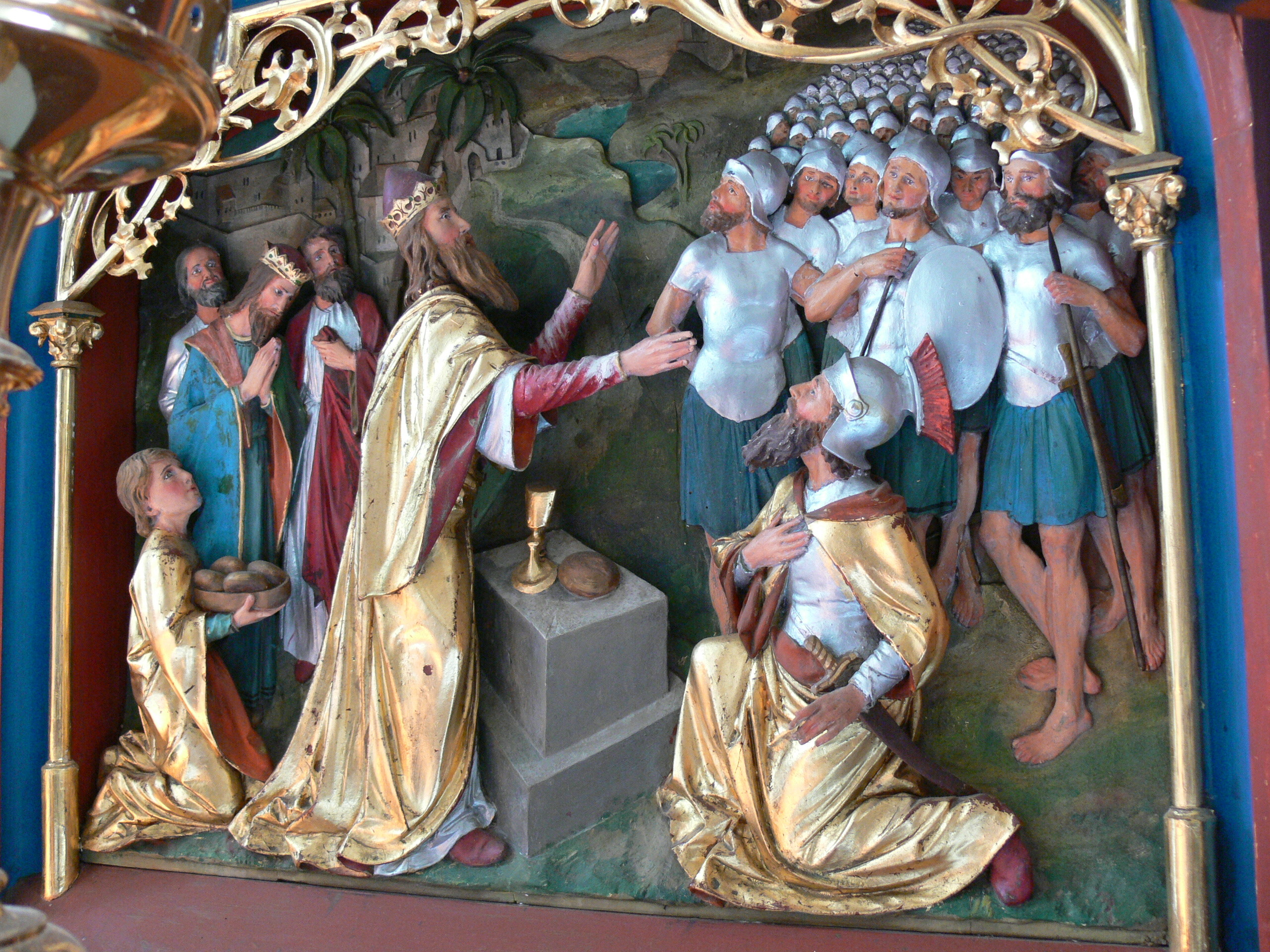 Sarleinsbach ( Upper Austria ). Saint Peter parish church: Gothic revival high altar ( 1904 ) - detail: Sacrifice of Melchizedek.